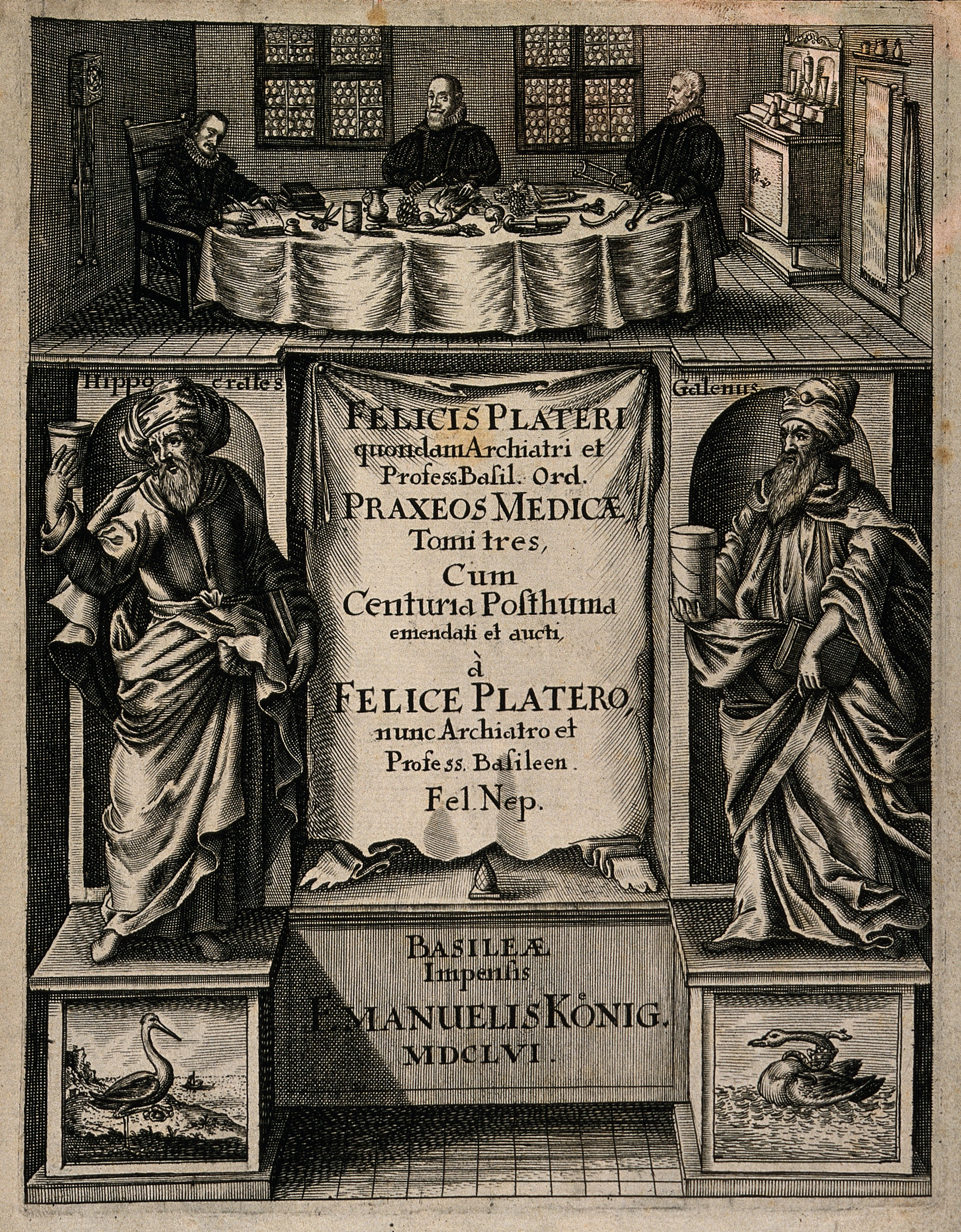 The anatomist Felix Platter, seated at a table covered with surgical instruments in a room with two other men, below which are the figures of Hippocrates and Galen. Engraving, 1656. Iconographic Collections Keywords: Felix Plater; Felix Platter; Galen; Hippocrates